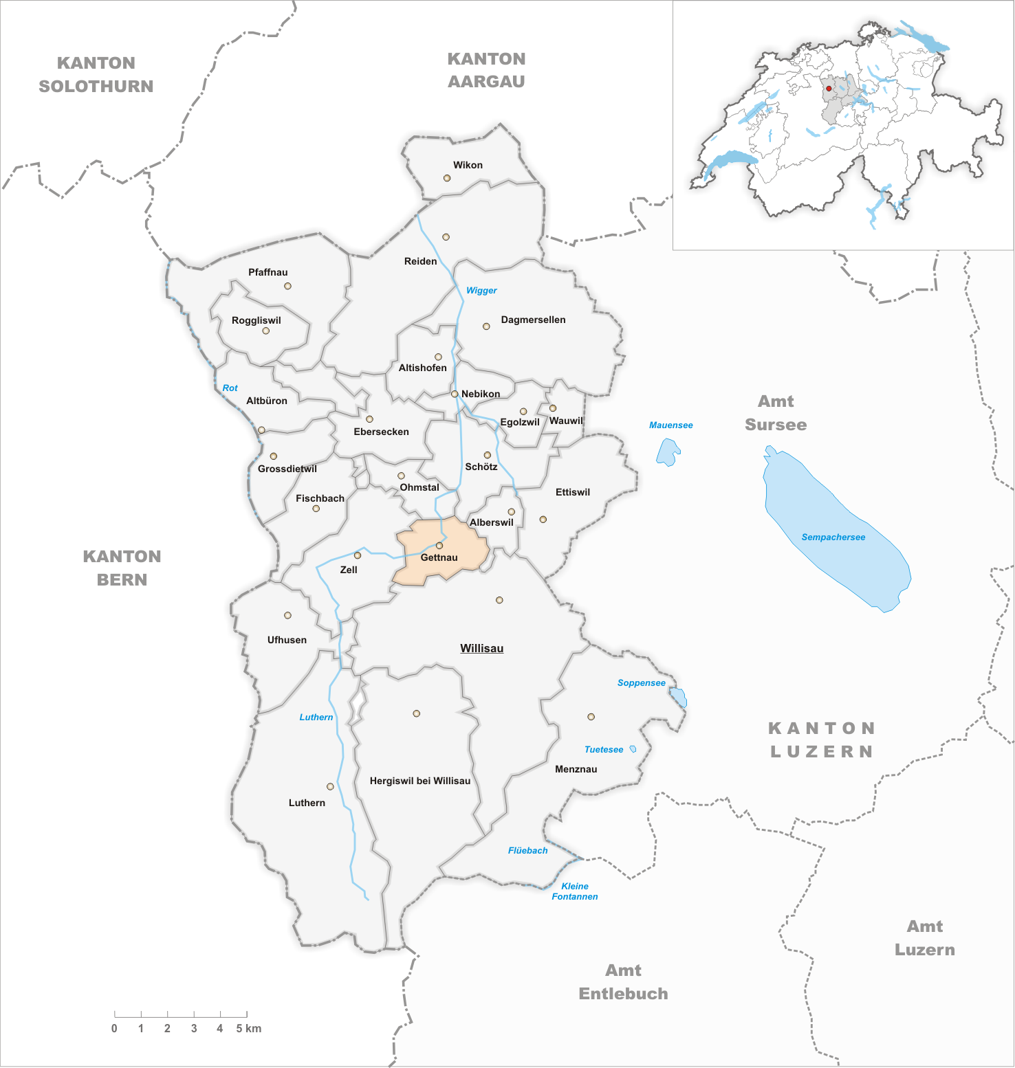 Municipality Gettnau